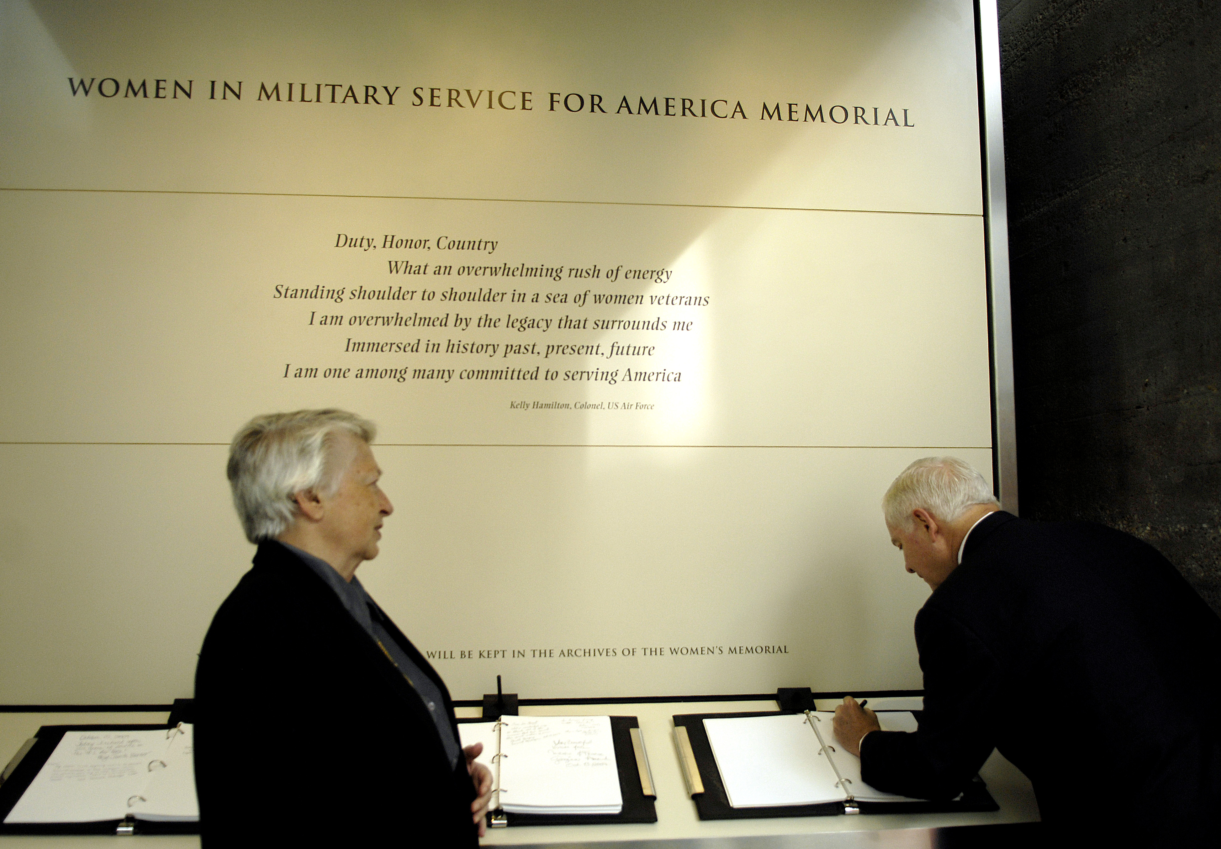 Defense Secretary Robert M. Gates signs the guest book as Retired U.S. Air Force Brig. Gen. Wilma Vaught, president of the Women in Military Service for America Memorial Foundation, looks on during the 10th Anniversary Ceremony of the Women's Memorial Dedication at Arlington National Cemetery, Nov. 3, 2007.